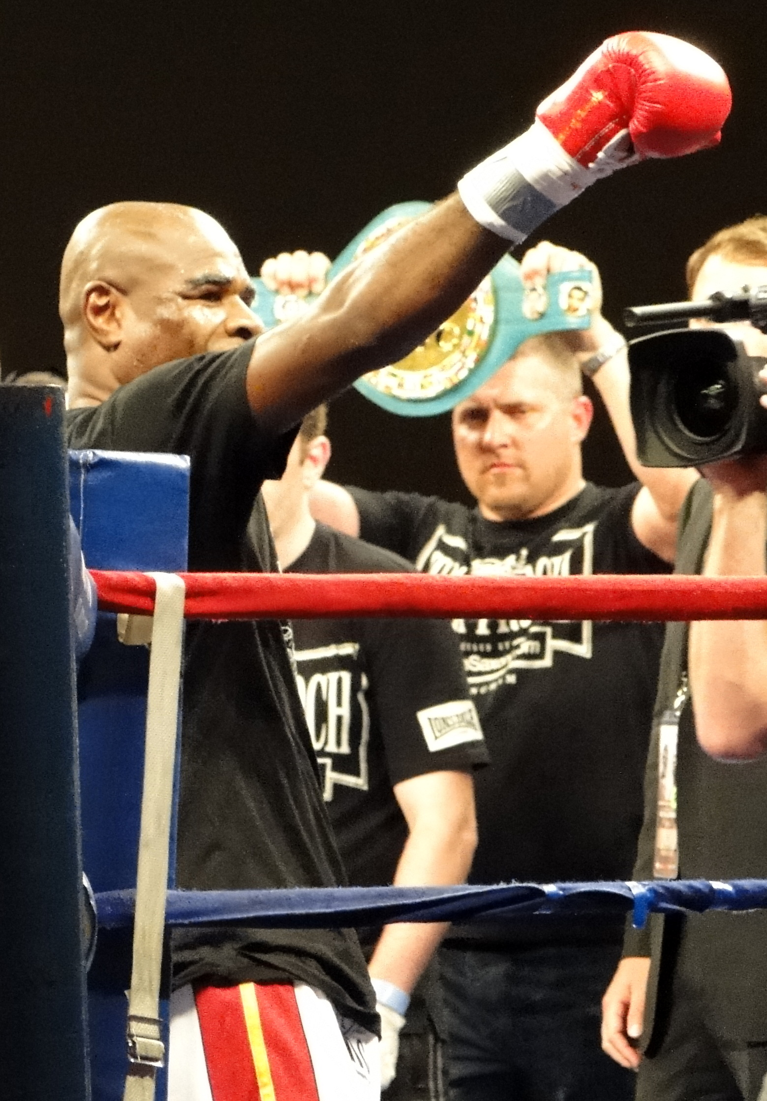 Glen Johnson (on the left) at the Boardwalk Hall in Atlantic City, New Jersey, United States on June 4, 2011.